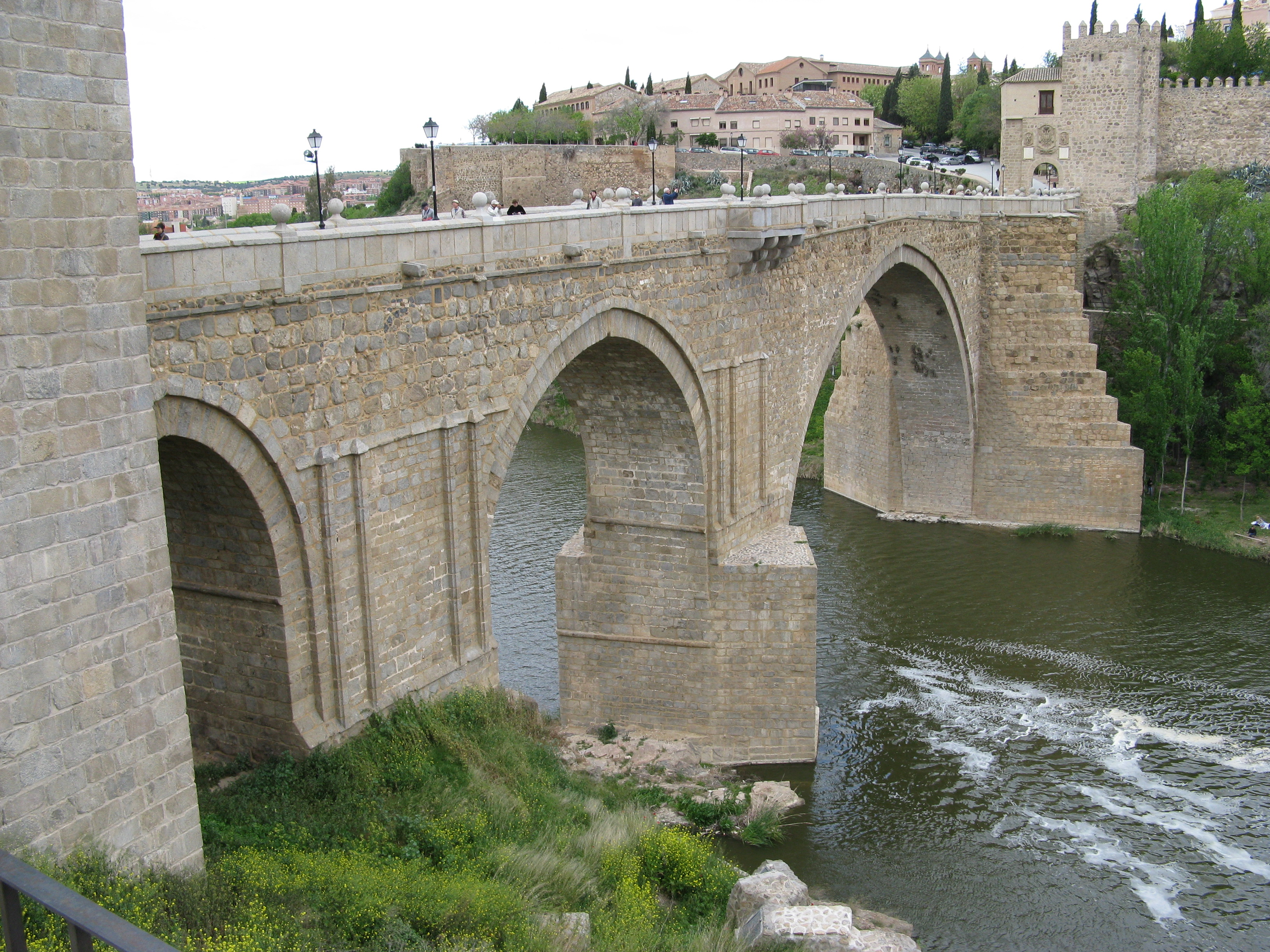 Bridge of San Martín, Toledo.